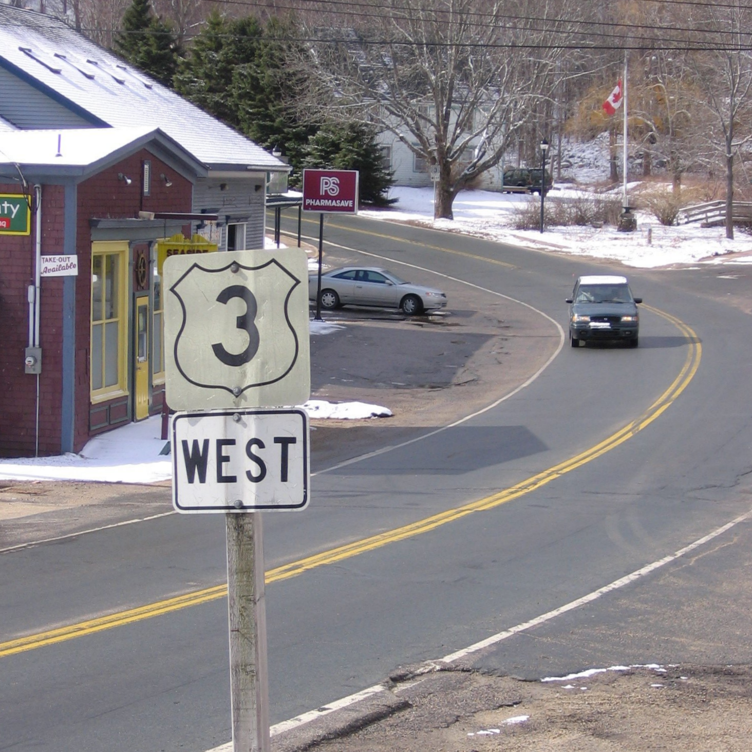 Route sign at roadside